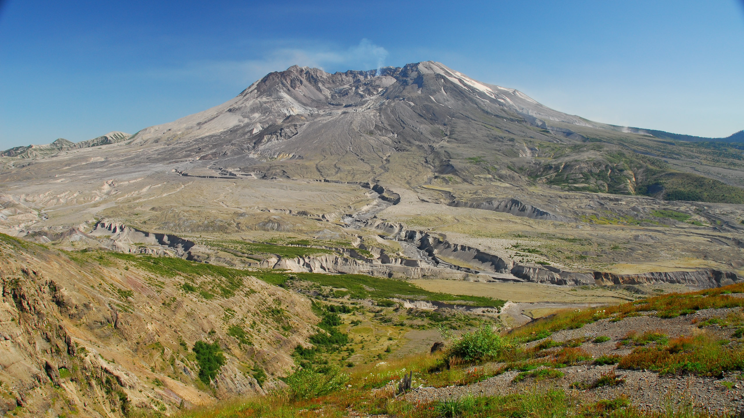 Mount Saint Helens from Johnston Ridge, State of Washington, United-States